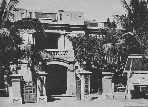 Takao(Kaohsiung) Prefectural Office